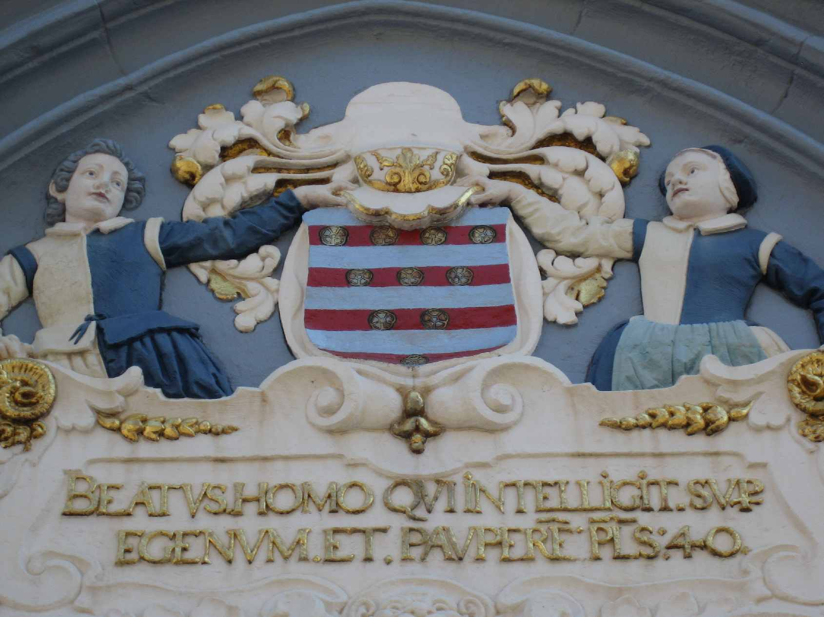 Zoudenbalch arms on portal of former orphanage in the Springstraat, Utrecht, the Netherlands.